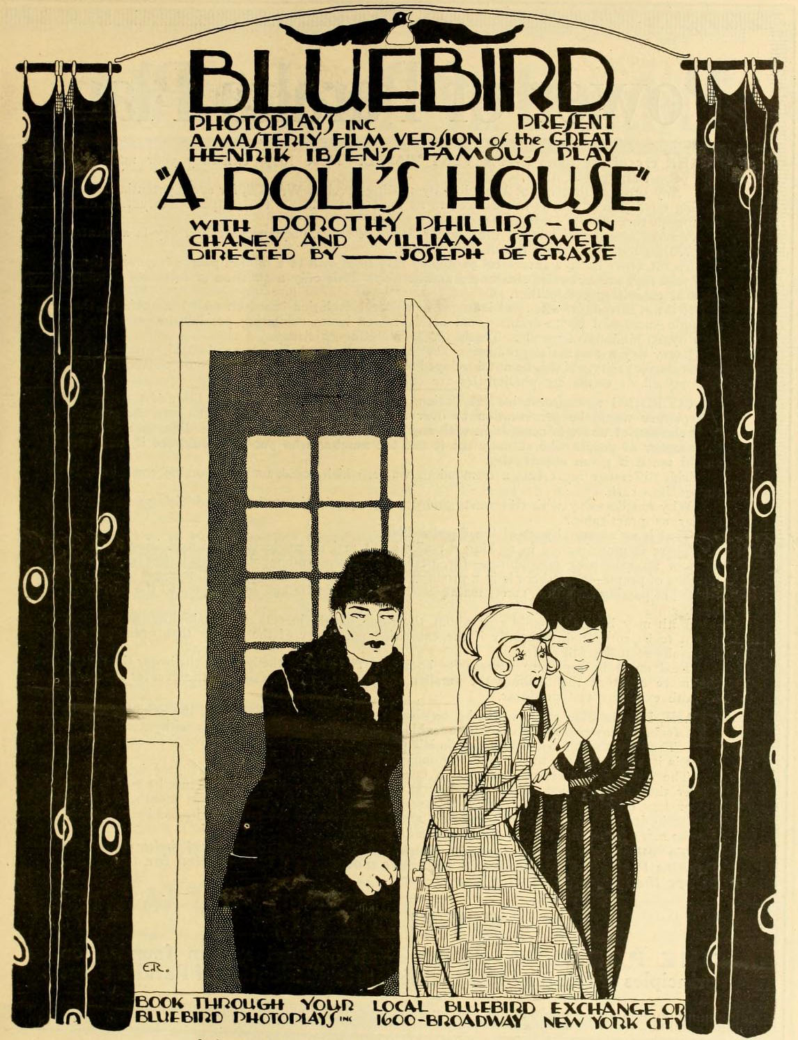 Advertisement in Moving Picture World for the American film A Doll's House (1917).